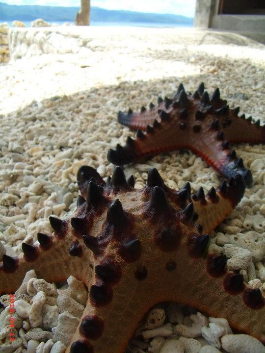 dalupiri3